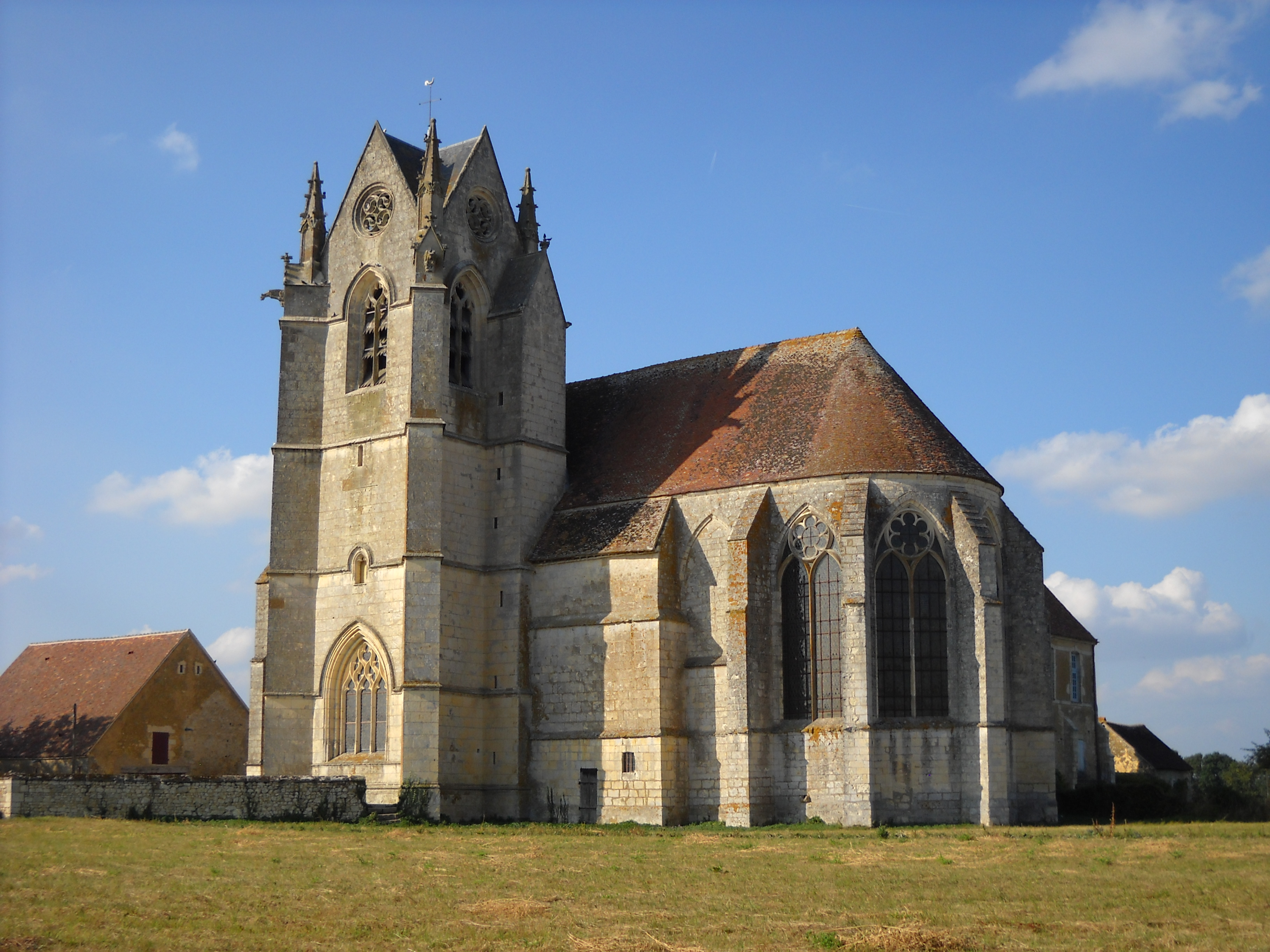 St.Gauburge's church, in Saint-Cyr-la-Rosière, Orne, France.